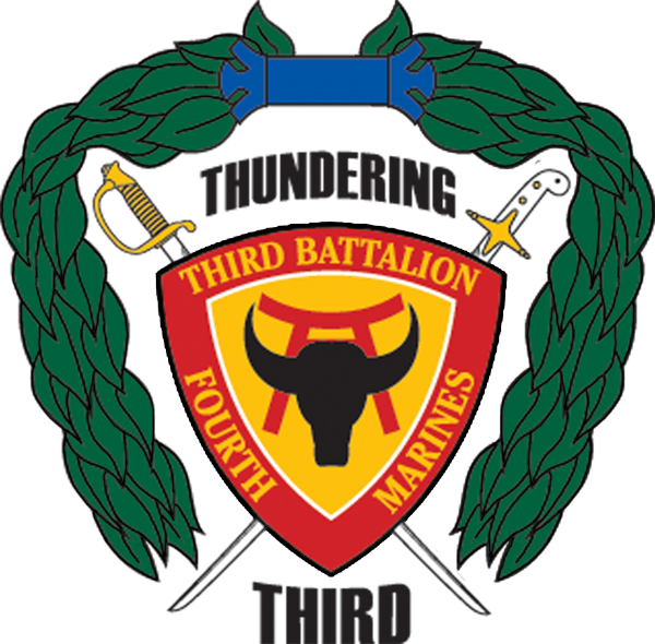 Insignia for 3rd Battalion 4th Marines.